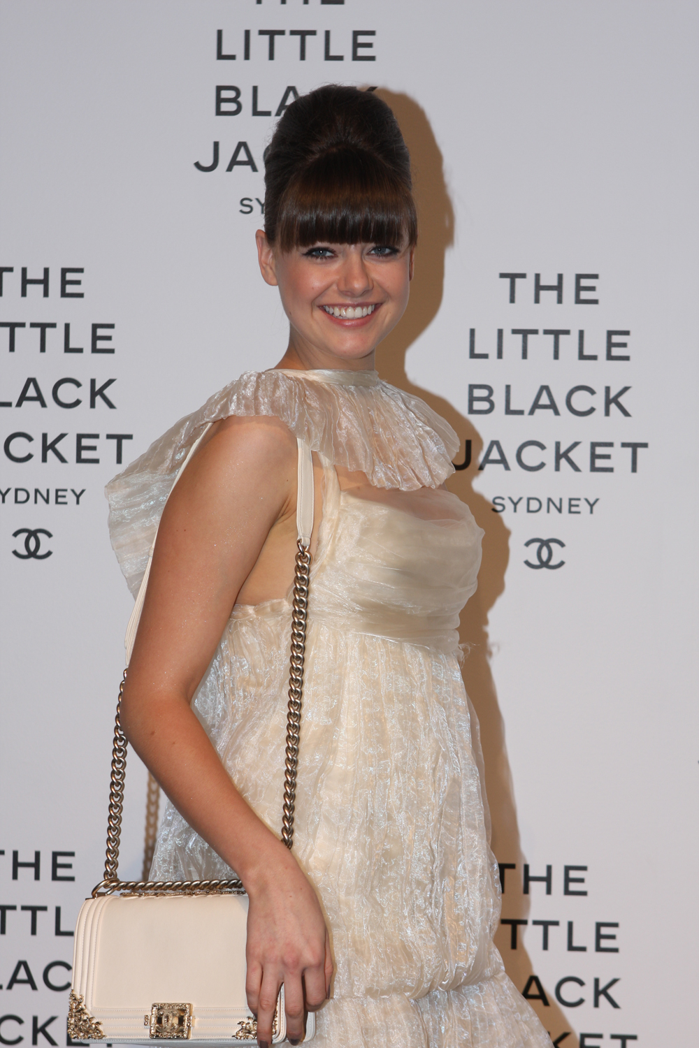 April Rose Pengilly at a Chanel function in Sydney, Australia